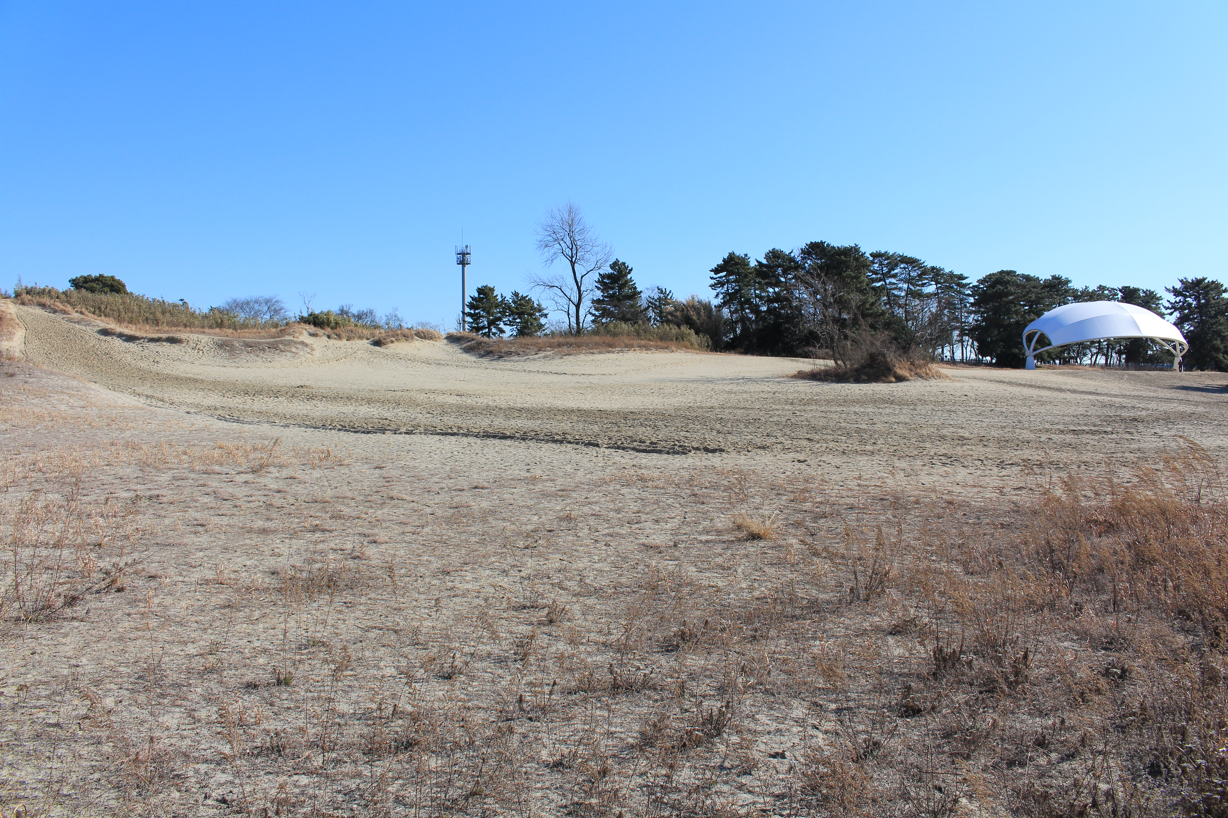 Sobue Sand Dunes in Inazawa, Aichi prefecture, Japan.